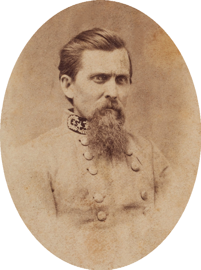 Vignette portrait of Confederate General John George Walker wearing double breasted frock coat with buttons in groups of three & General's insignia on standup collar. Unattributed, backmark of "Blessing's / Gallery / Houston / Texas". Heritage Auctions